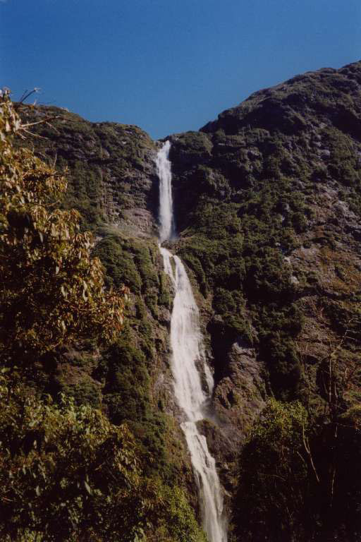 Author: Evan Hunter (me) Taken by me from the track between Quintin Lodge and Sutherland falls on the Milford Track